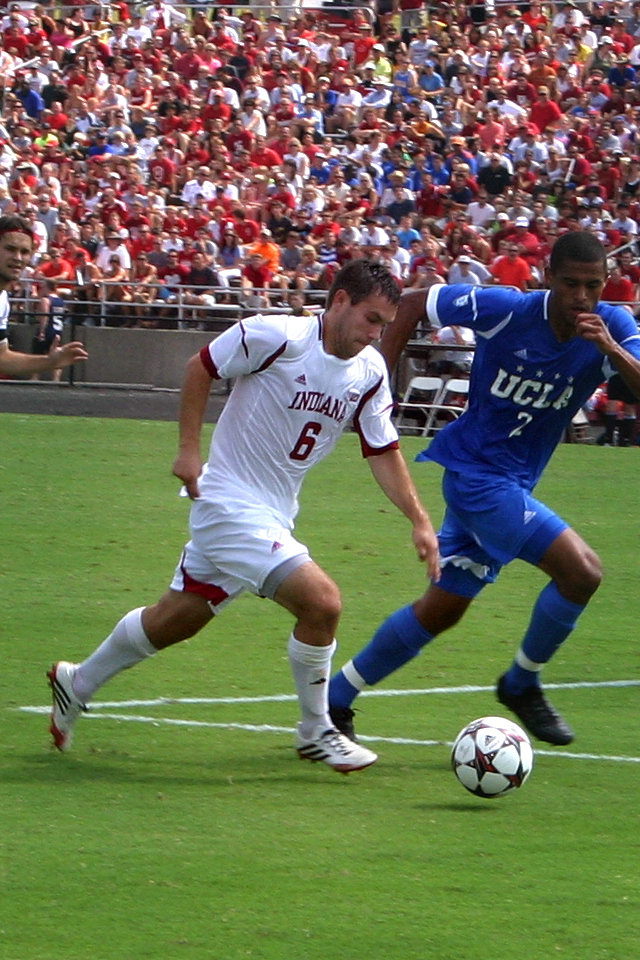 Dylan Mares playing midfield for the Indiana Hoosiers men's soccer team on September 1, 2013.